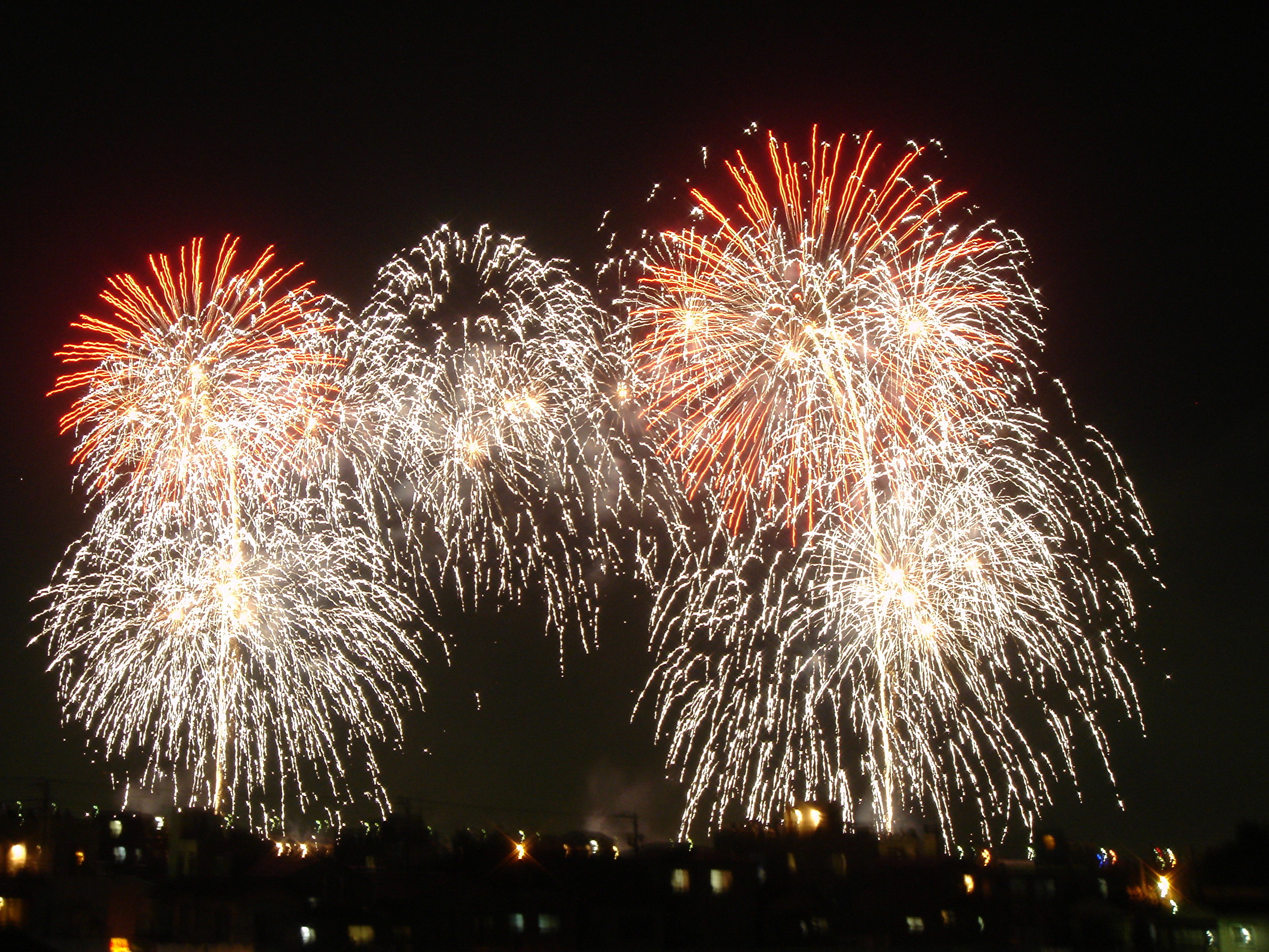 Fireworks in Tokyo.